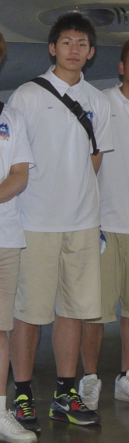 Aomori Wat's